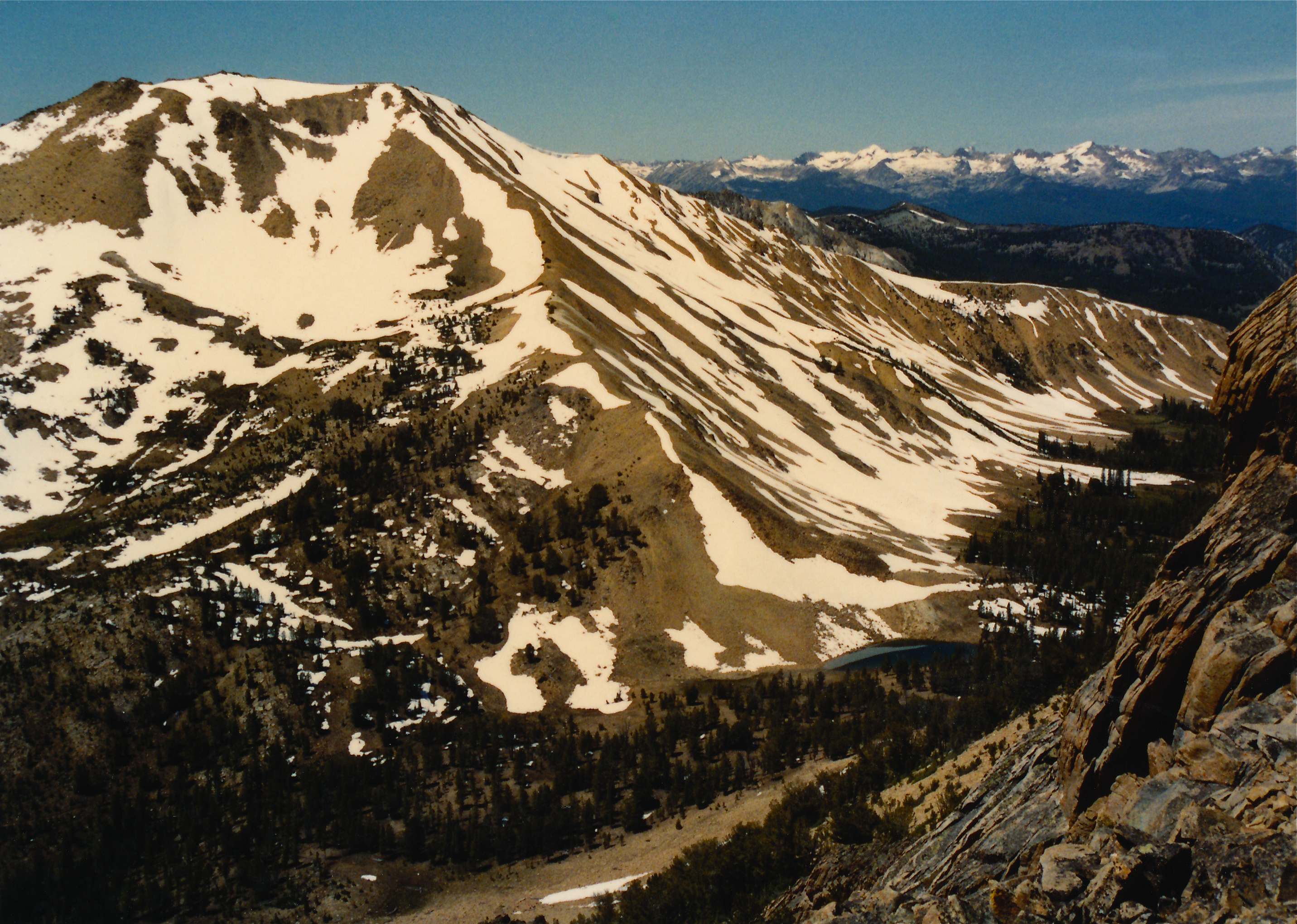 The White Cloud Mountains in Sawtooth National Recreation Area and at right in the distance, the Sawtooth Range above Stanley Basin. Scanned print.